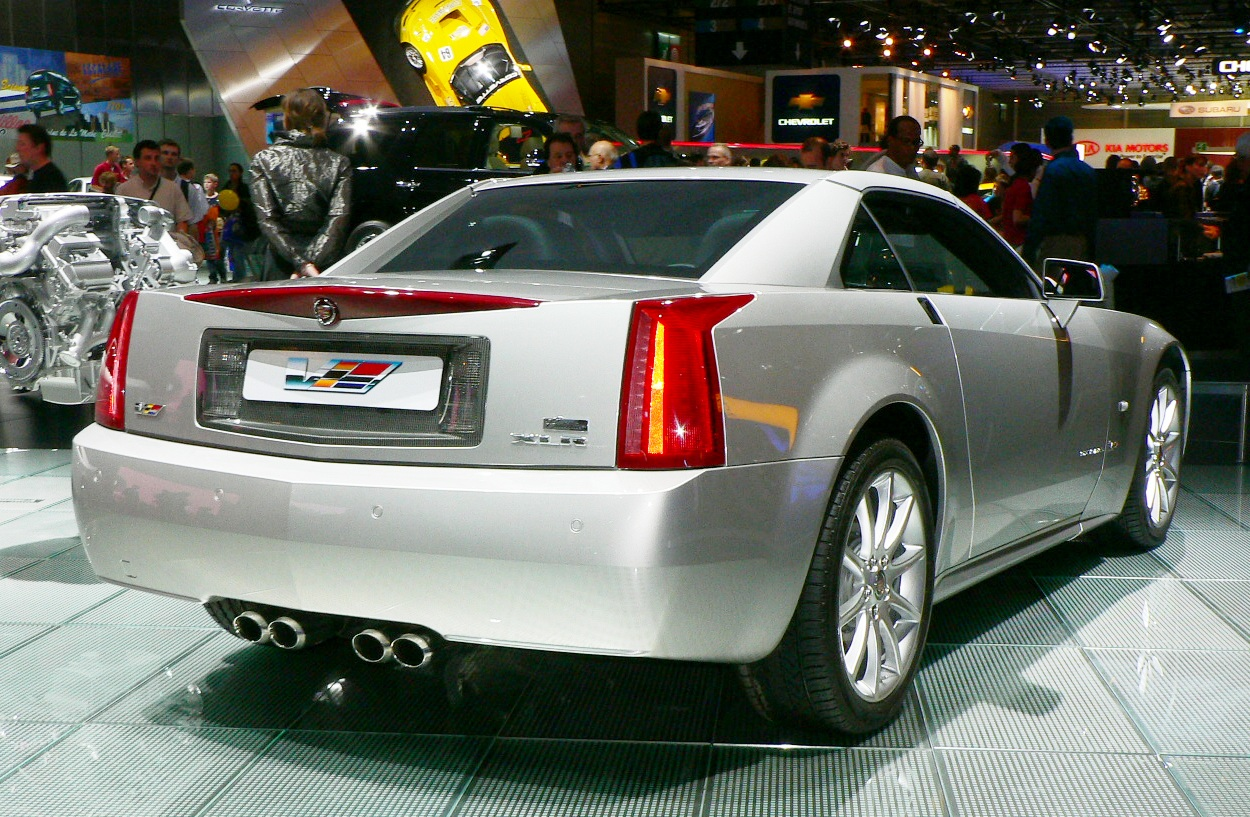 Cadillac XLR at the 2006 Paris Motor Show